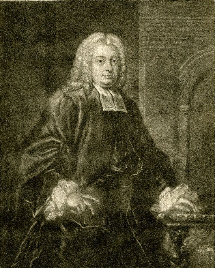 Portrait of Anthony Malone (1700–1776), Irish lawyer and politician.